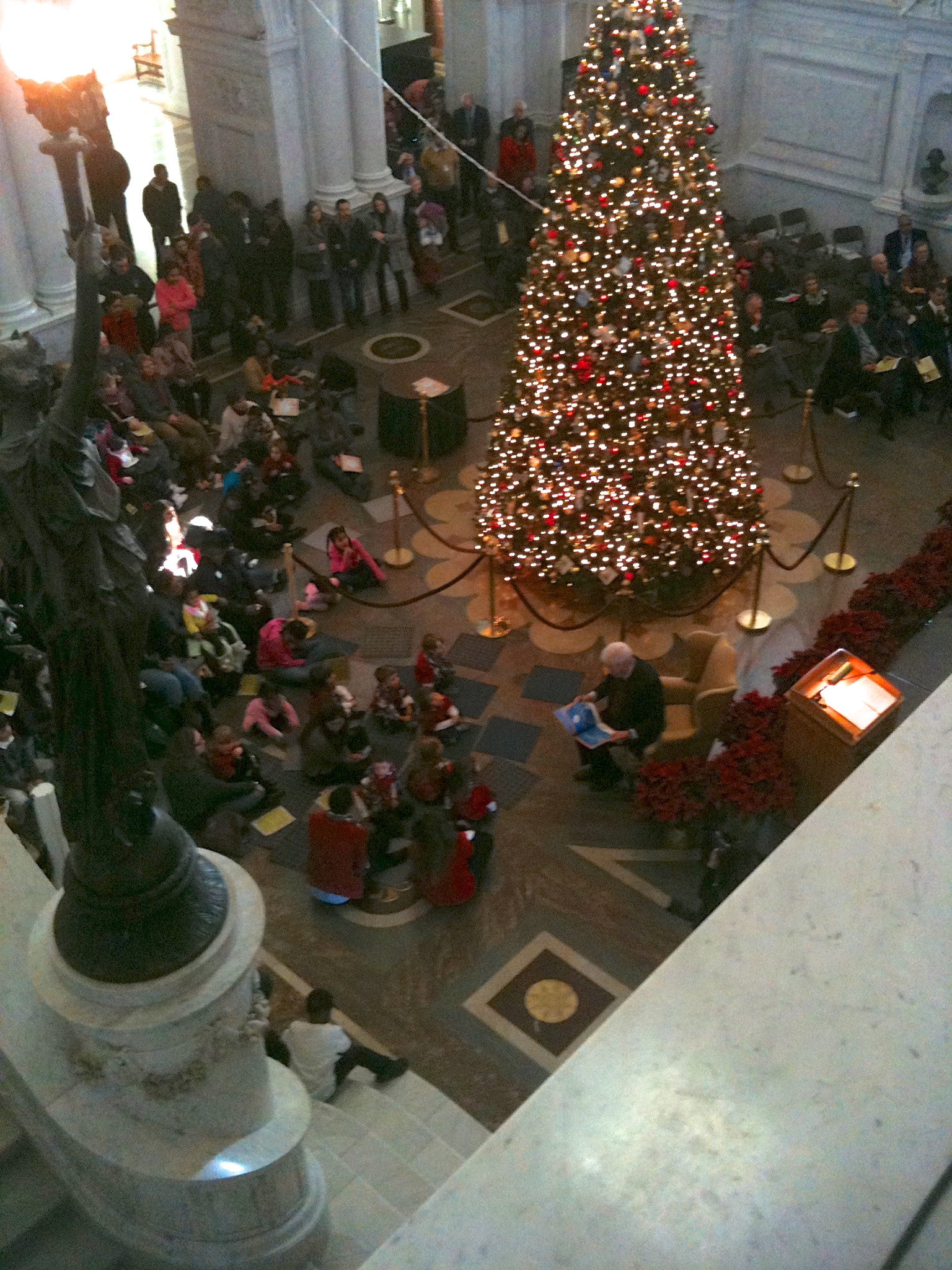 Mr. and Mrs. Santa Claus make their entrance at the Library of Congress Great Hall, December 2010